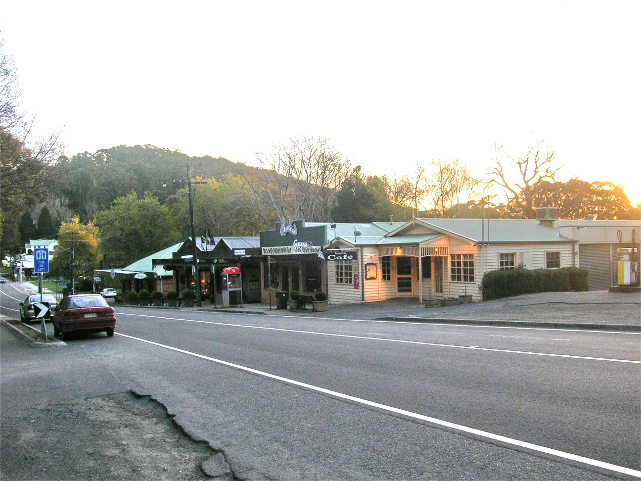 A photo of main street Sassafras, Victoria, Australia